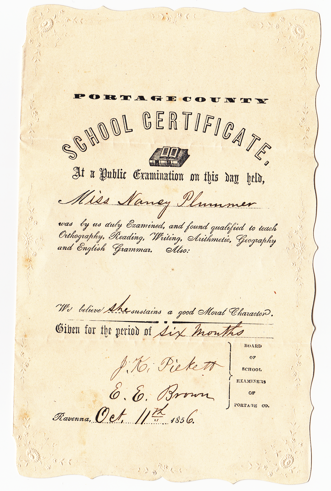 A scan of a school certificate, used to certifiy a teacher (Miss Nancy Plummer) in Portage County, Ohio.